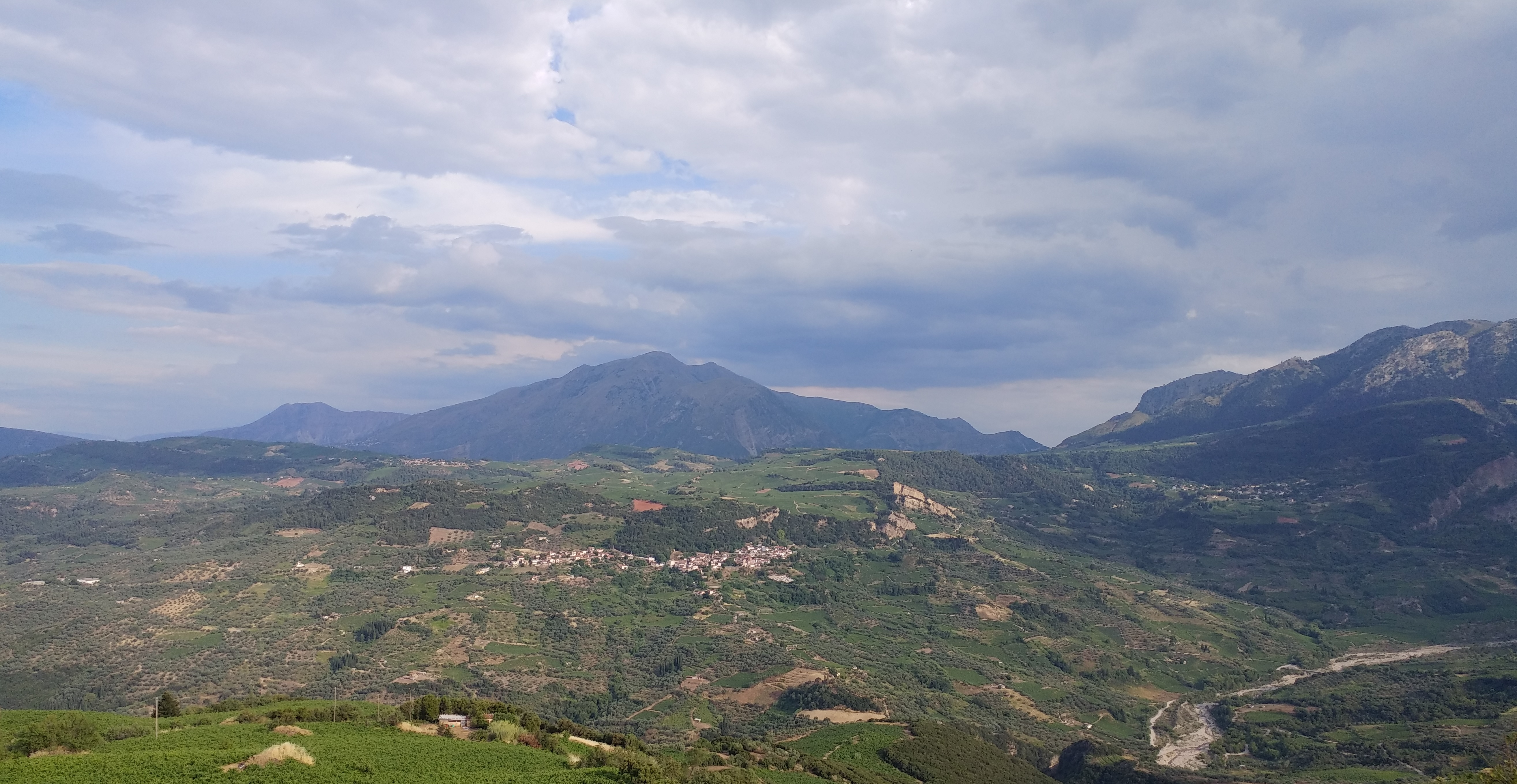 Ιn the foreground Dafnes village, Achaia, Greece is depicted and in the second plan, in the background, Klokos Mt. (center) is depicted.